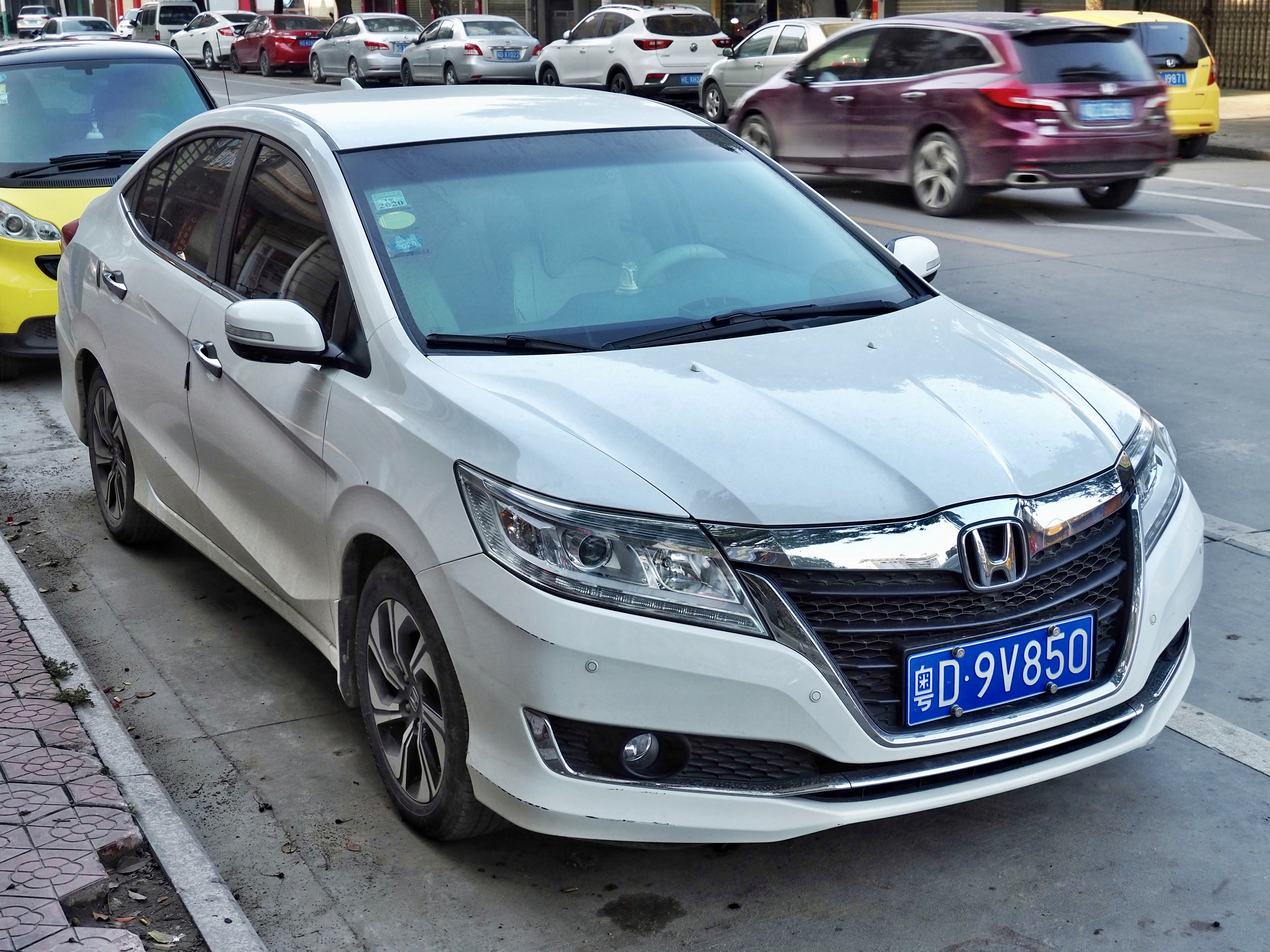 A 2013 GAC-Honda Crider photographed in Shantou, Guangdong Province, China. 中文（中国大陆）: 一辆2013年的广汽本田凌派，拍摄于中国广东省汕头市。